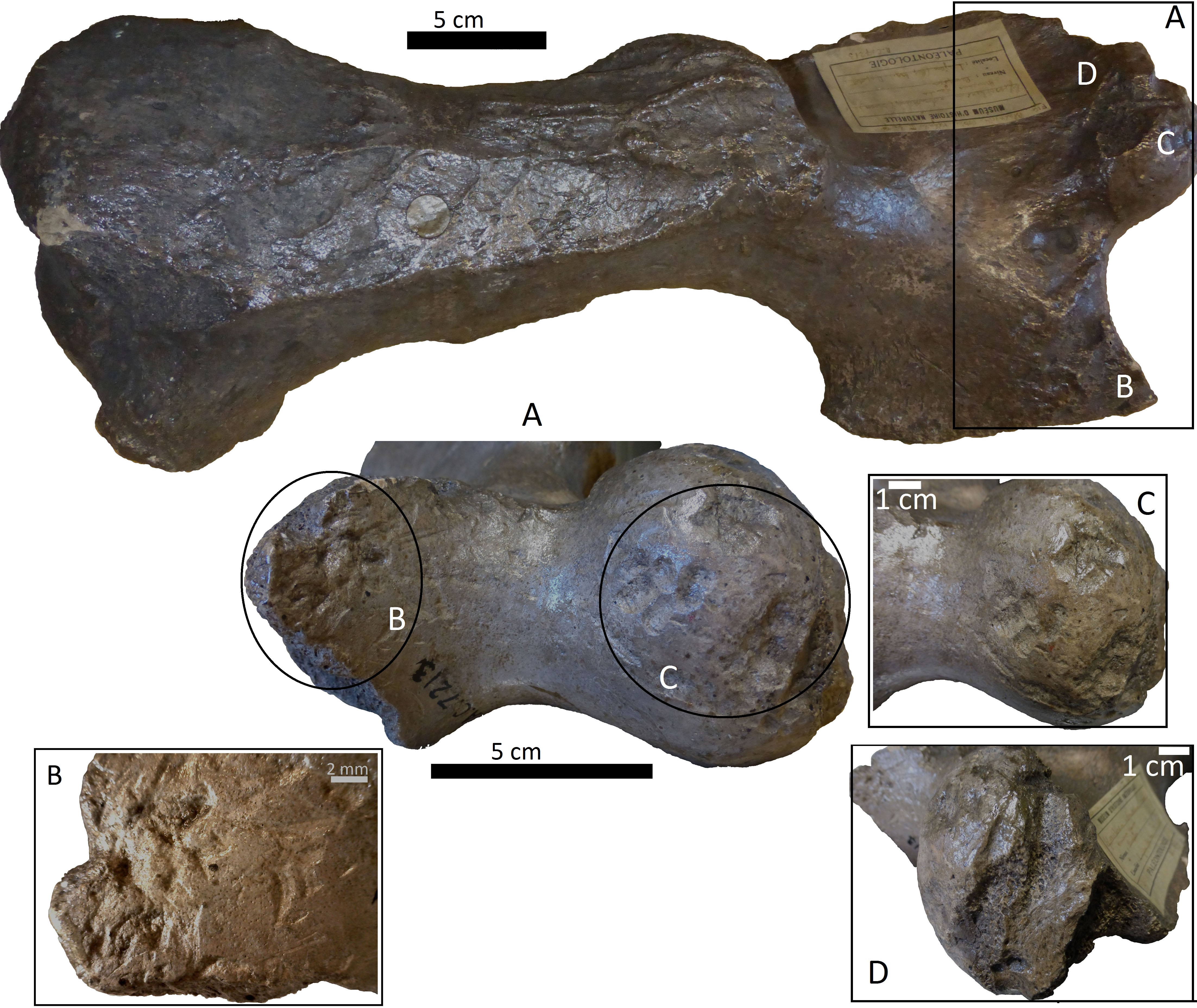 Glossotherium, Left humerus of G. robustum (MNHN.F.PAM 119), anterior view, indicating the different carnivore marks. (A) front view of distal articular face; (B) amplification of trochlear region with punctures and scratches; (C) amplification of condyle with scoring; (D) wide grooves on the lateral face.